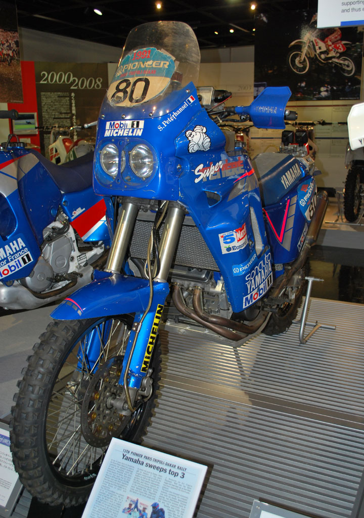 Yamaha YZE750T Super Tenere ( Stephane Peterhansel, Dakar Rally 1991 )